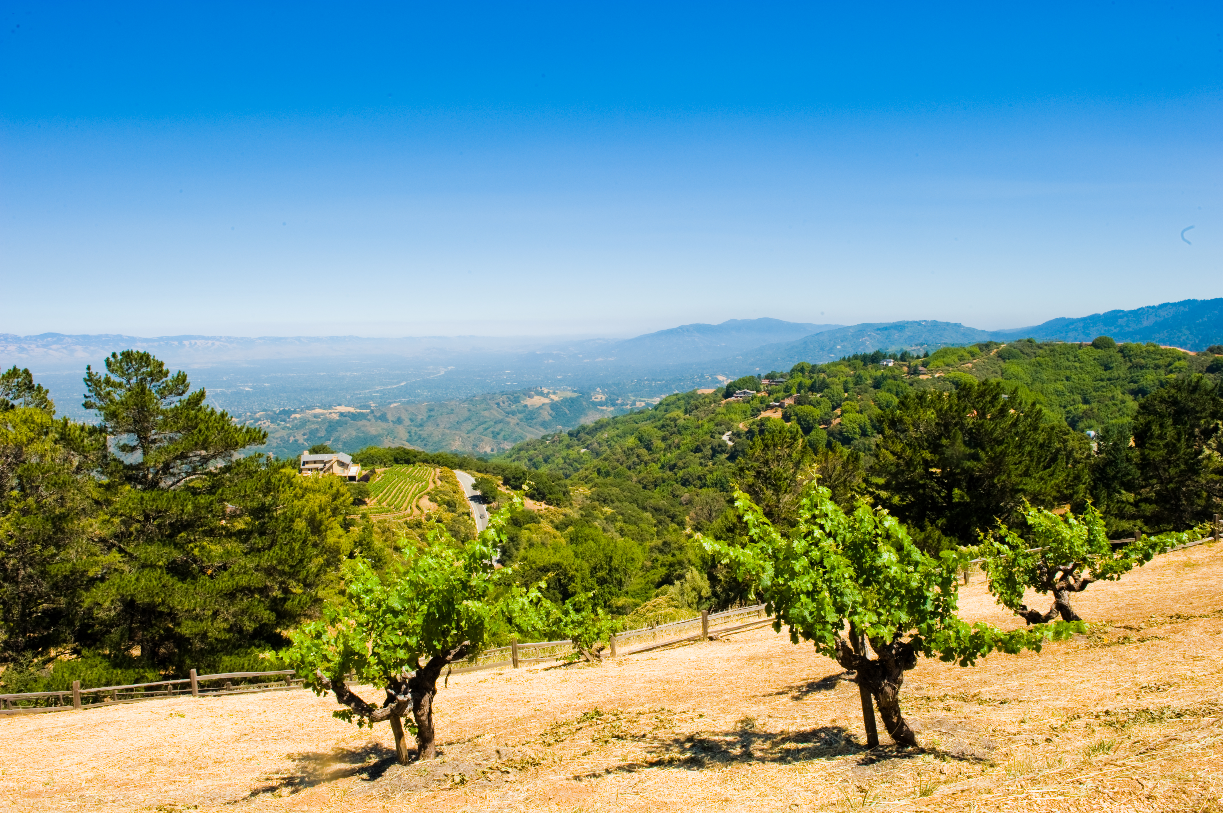 View of the Santa Cruz Mountain AVA from the California winery Ridge Vineyards.